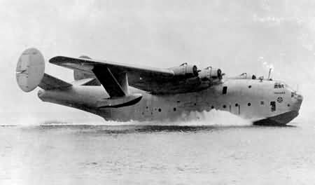 The U.S. Navy Martin XPB2M-1 Mars (BuNo 1520) taking off. It first flew as a patrol bomber prototype (XPB2M-1) on 3 July 1942 and was converted to a transport (XPB2M-1R) in December 1943. It was named Old Lady and finally beached at Alameda, California (USA), in mid-1945, before being subsequently scrapped.